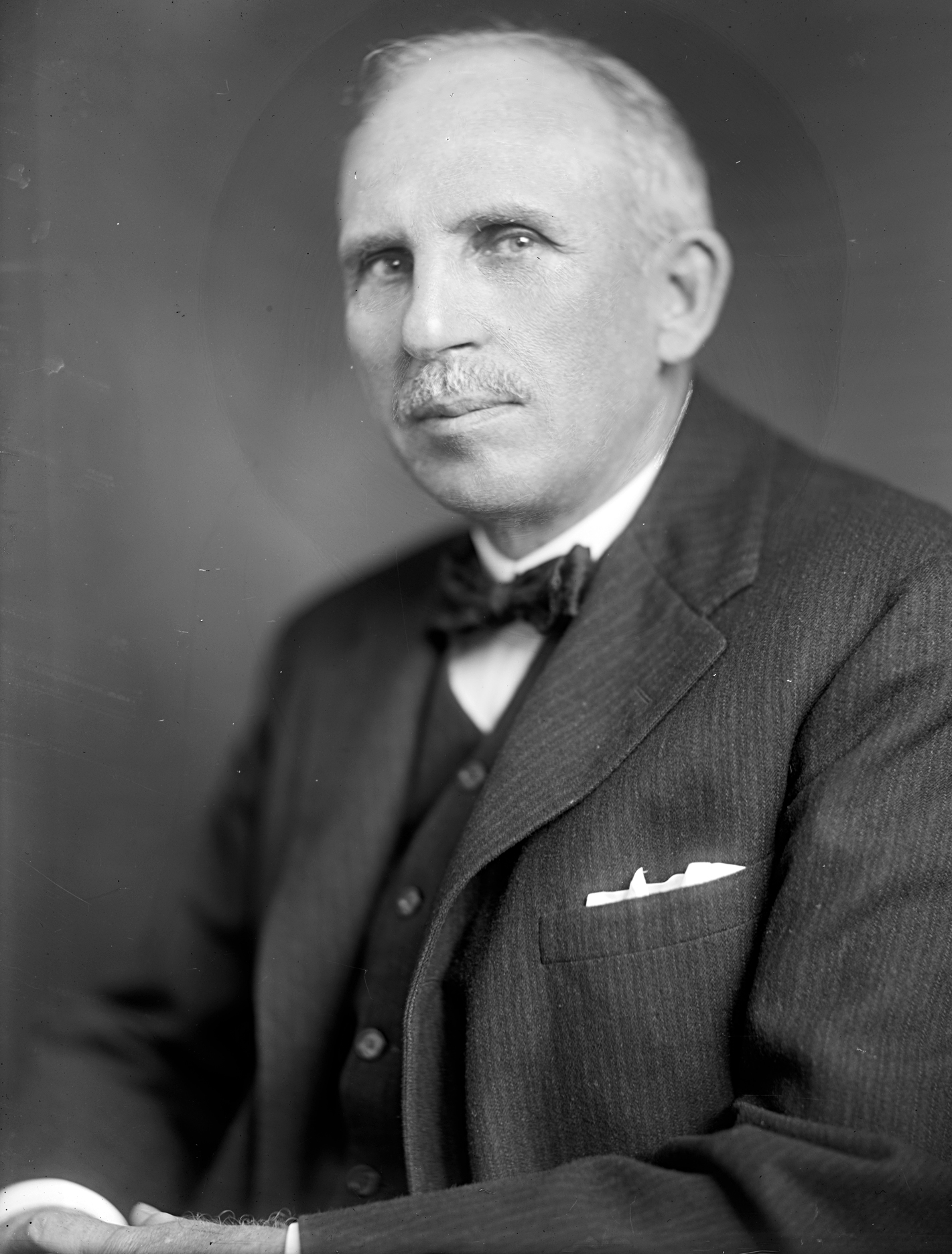 Edward L. Hamilton, US Representative from Michigan